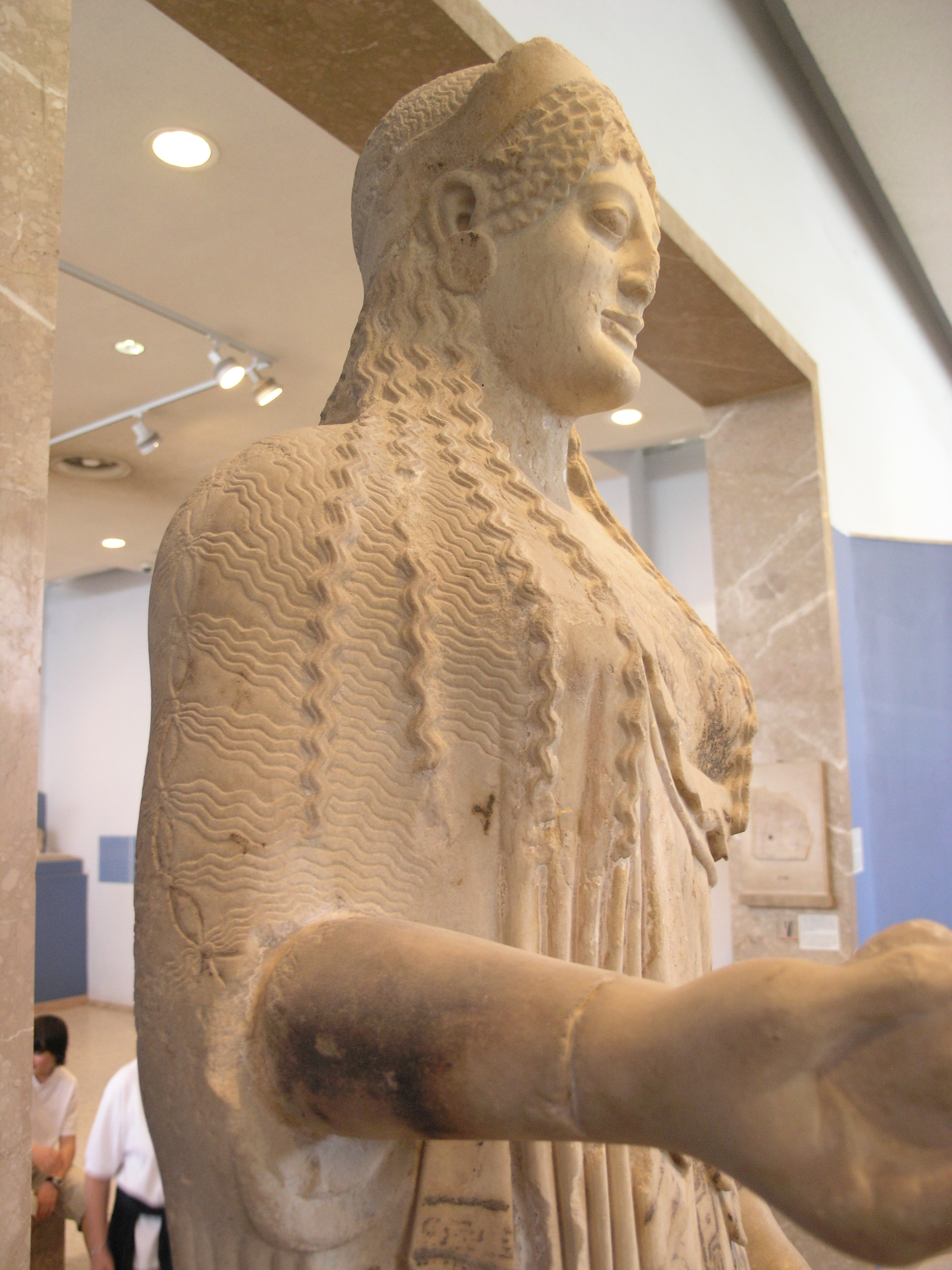 Kore, ca. 530-520 BC, found on the Acropolis